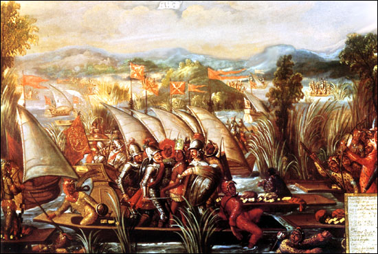 The capture of the Mexican Emperor Cuahtemoc Oil on canvas 47 ¼ x 78 ¾ in. (120 x 200 cm.)